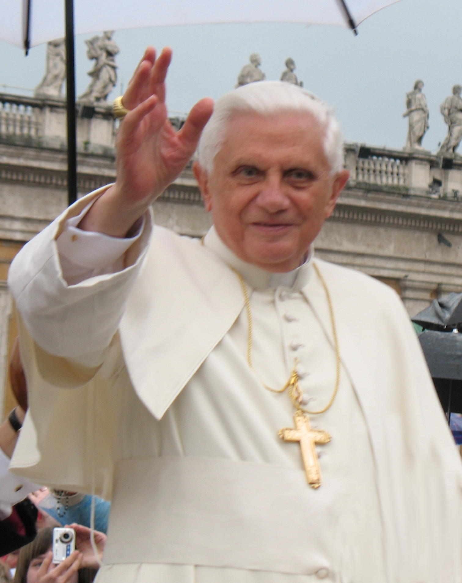 Pope Benedict XVI during general audition